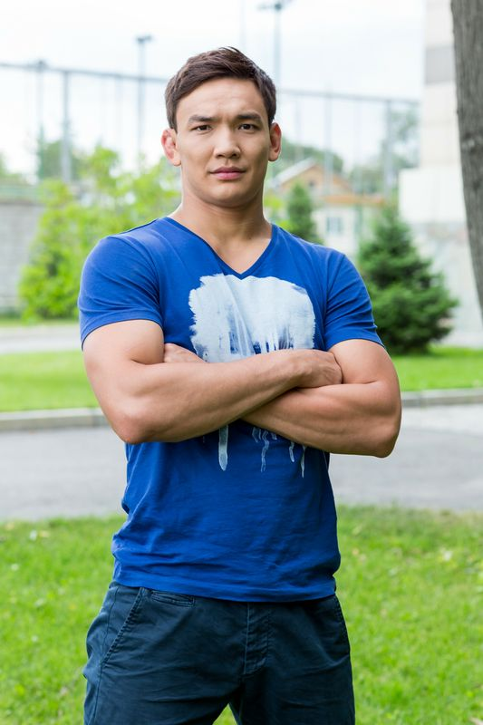 Famous Kazakh athlete - judoka Islam Bozbaev, silver medalist in 2010 Asian Games and Asian Championships-2011, a member of the Olympic Games - London 2012.